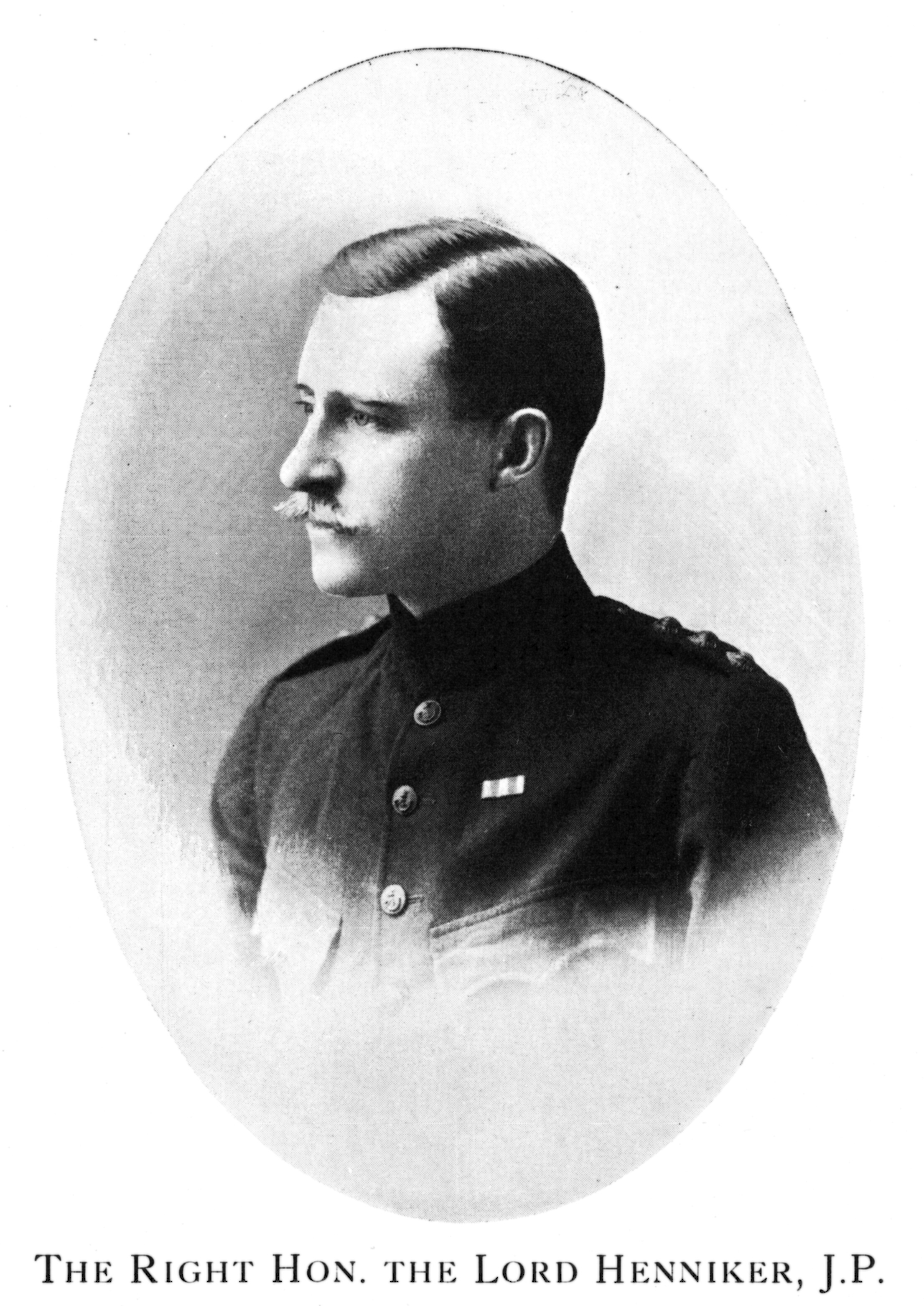 Photographic portrait (three-quarter view) of Charles Henry Chandos HENNIKER-MAJOR, 6th Baron Henniker (1872-1956), captioned THE RIGHT HON. THE LORD HENNIKER, J.P. from the book entitled Suffolk Leaders: Social and Political, by Charles Albert Manning PRESS (1869-1943) published (for subscribers only) in May 1906 by the Hornsey & Tottenham Press Ltd.